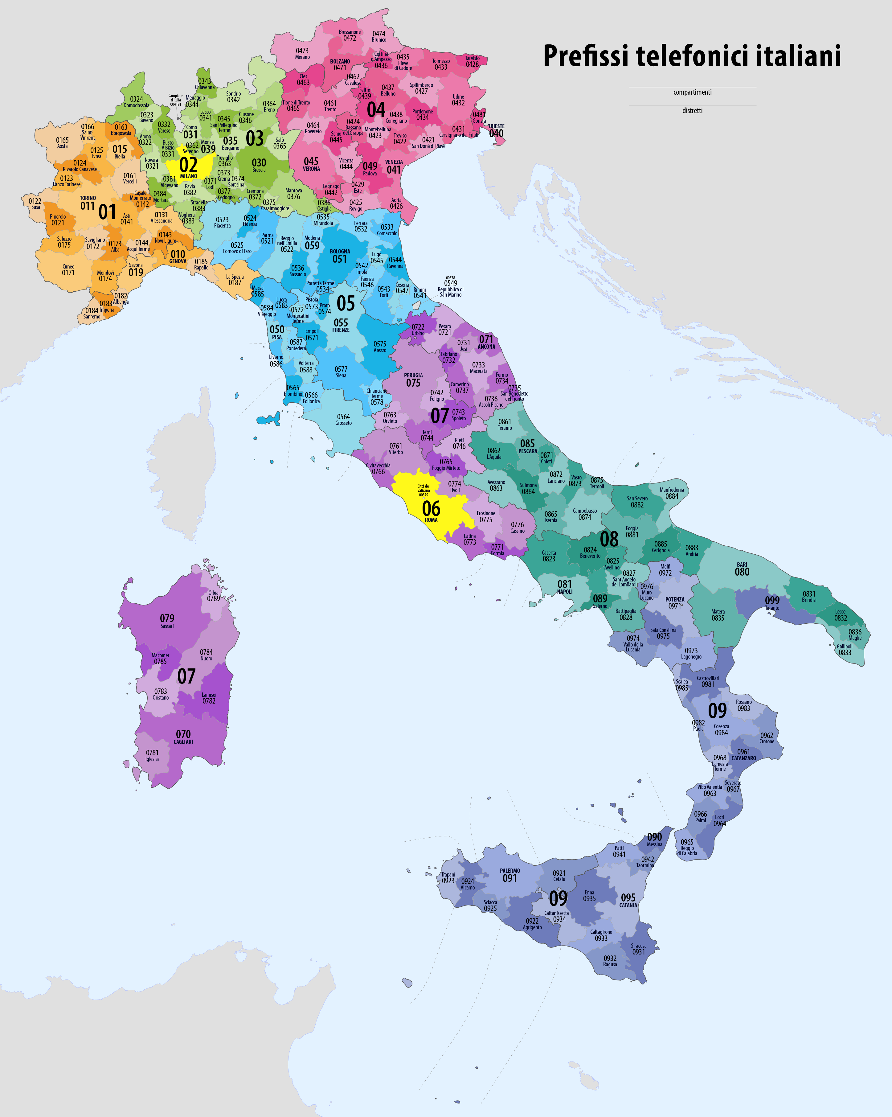 Map of the dialing codes of the telephone network of Italy